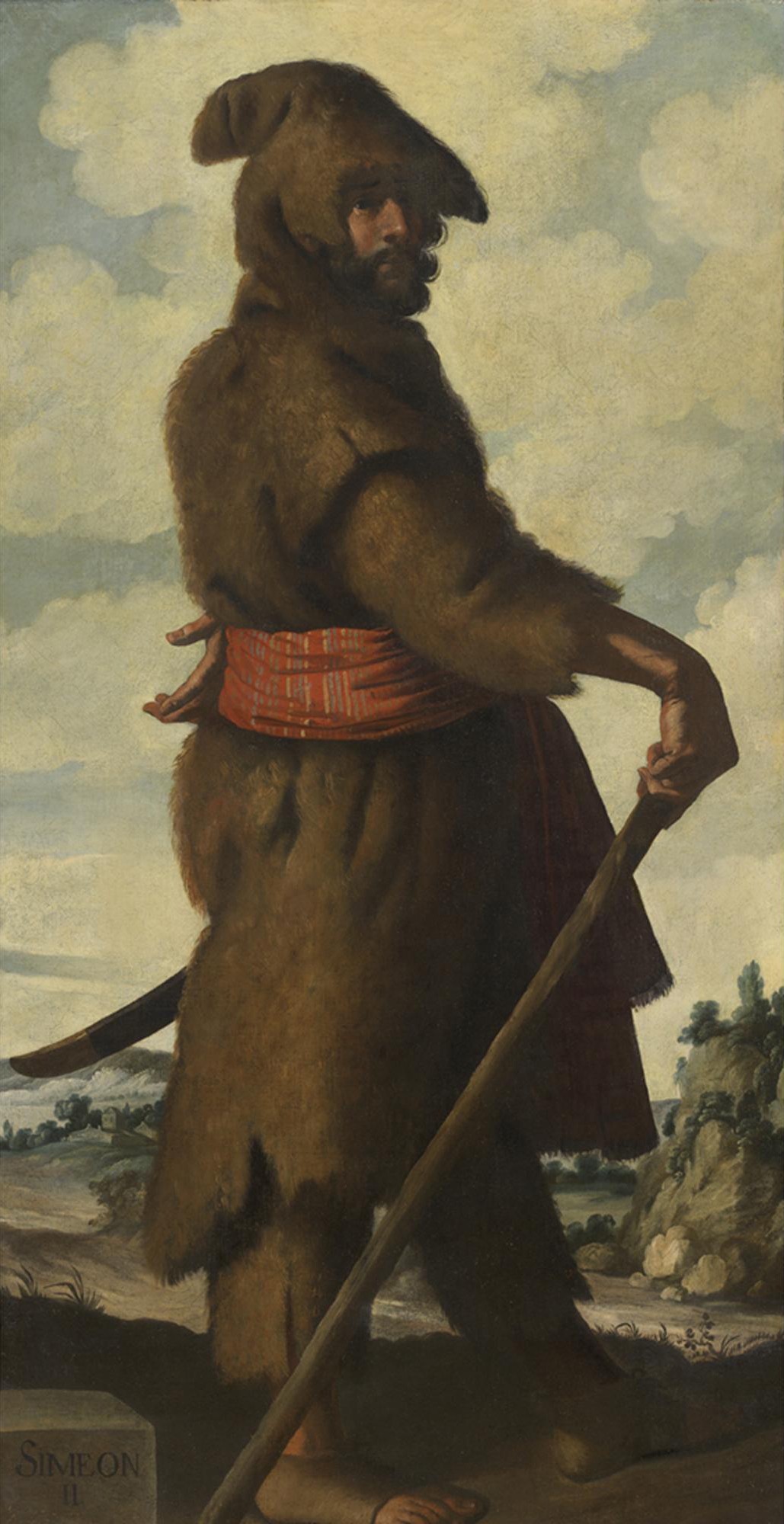 1640-1645 painting of the biblical patriarch by Francisco de Zurbarán